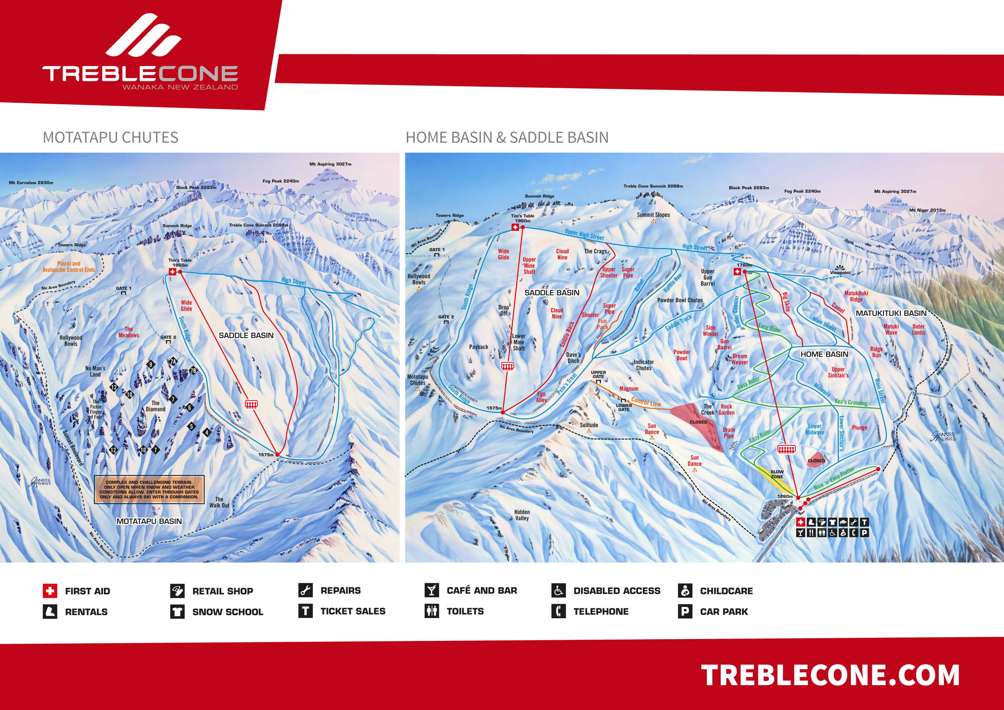 Treble Cone Trail Map (2013)